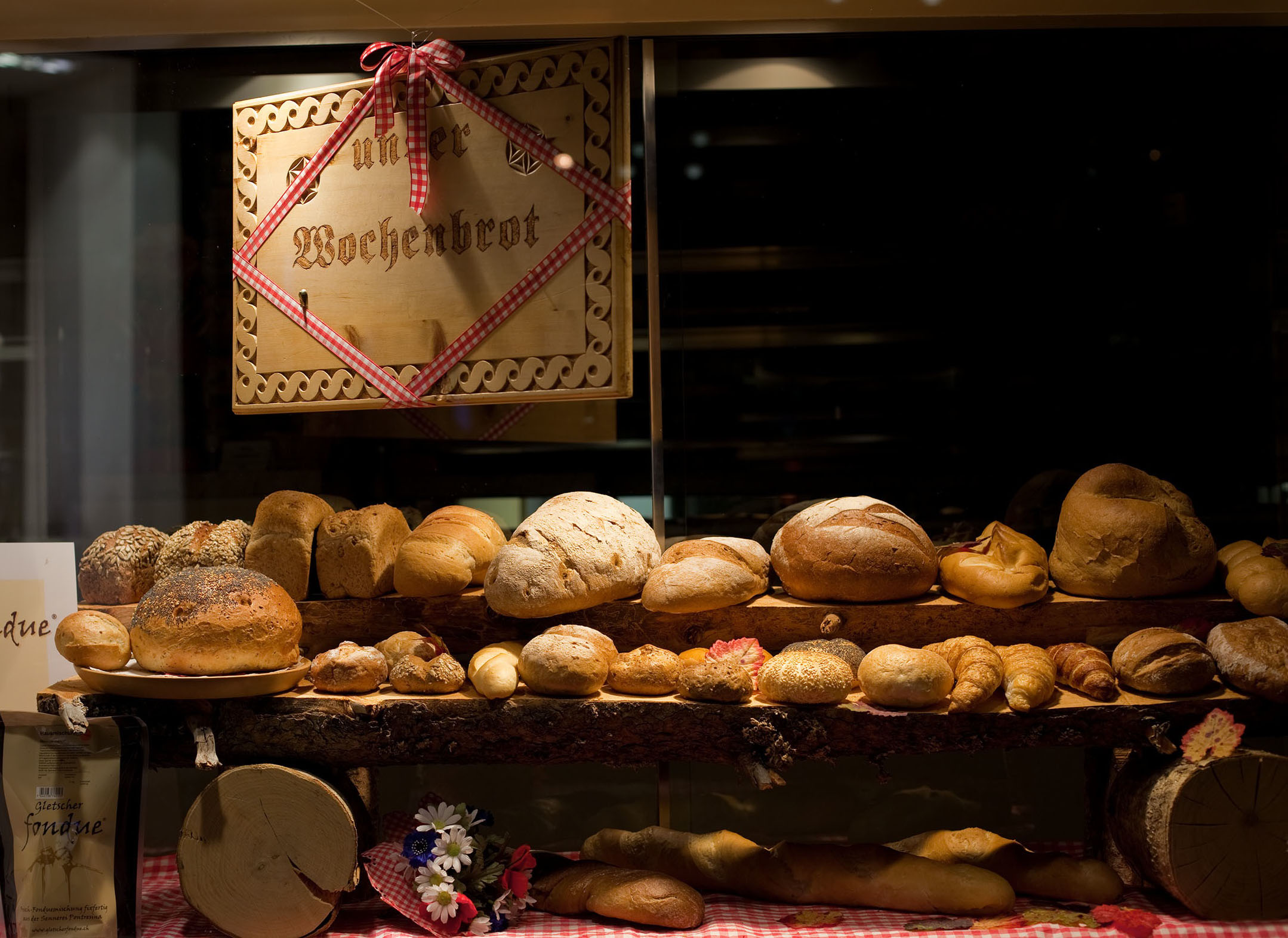 Different types of typical Swiss bread at a local bakery in St. Moritz, Grisons, Switzerland.